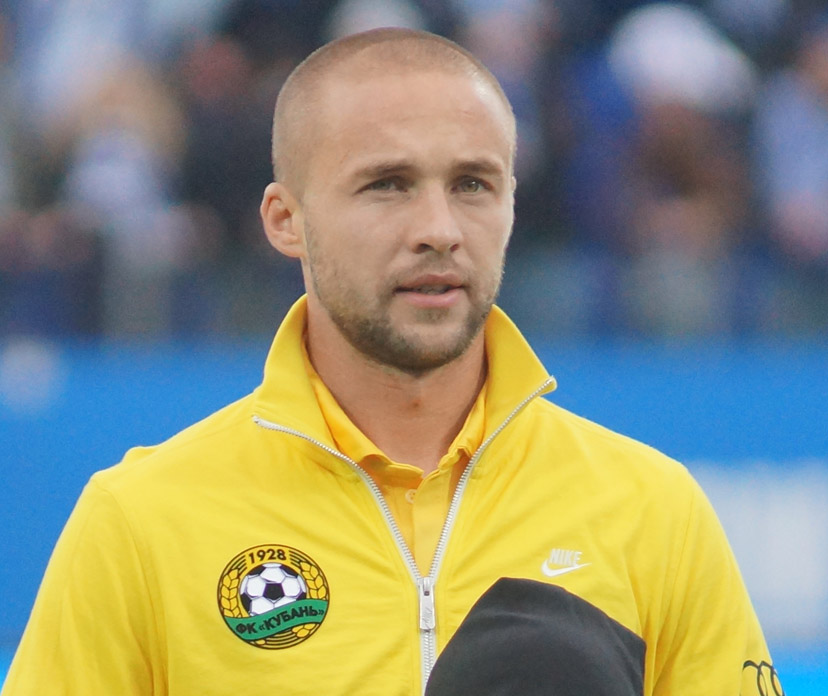 Vladislav Kulik